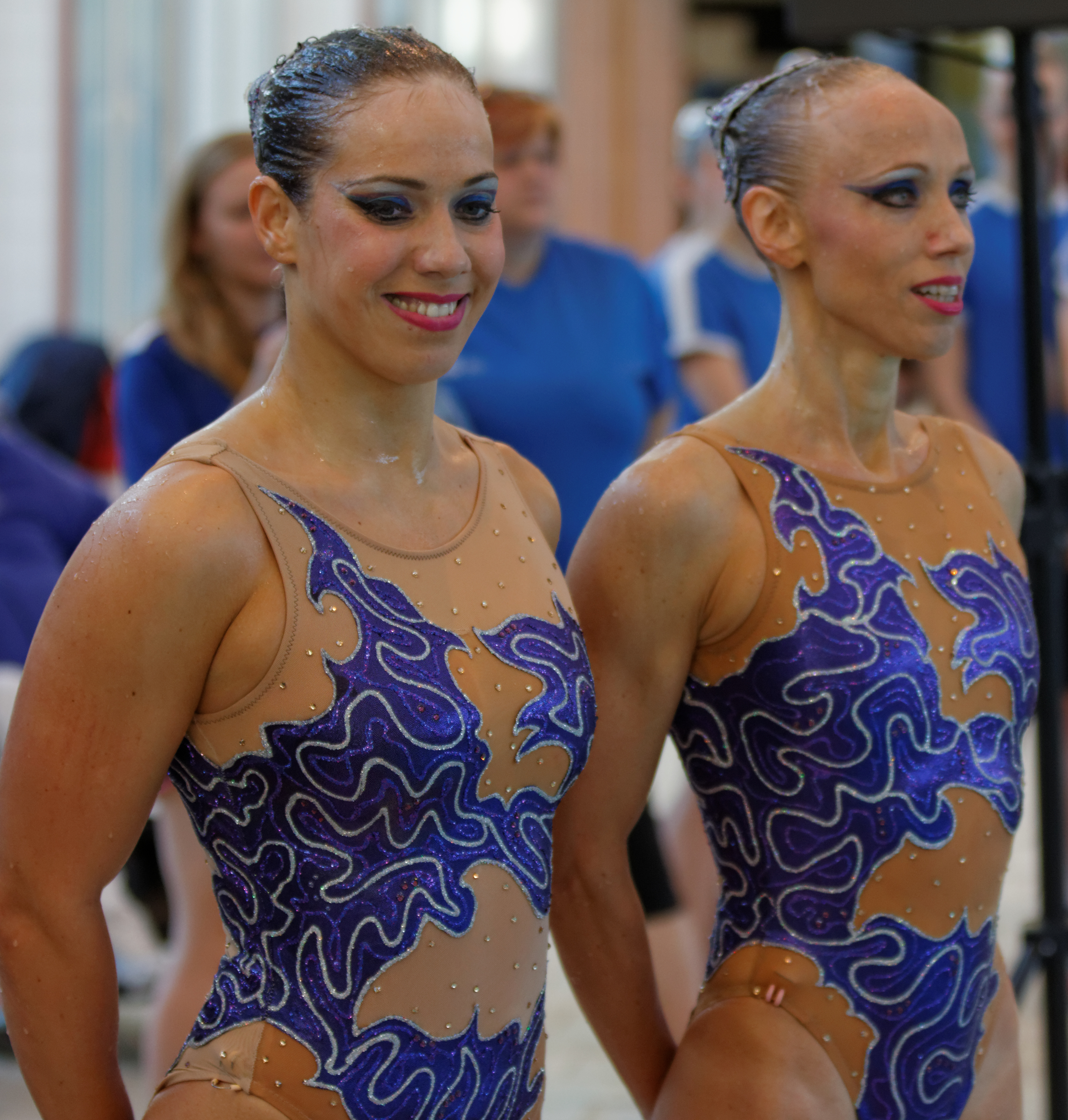 Sona Bernardova and Alzbeta Dufkova, duet free routine (preliminary), Open Make Up For Ever.